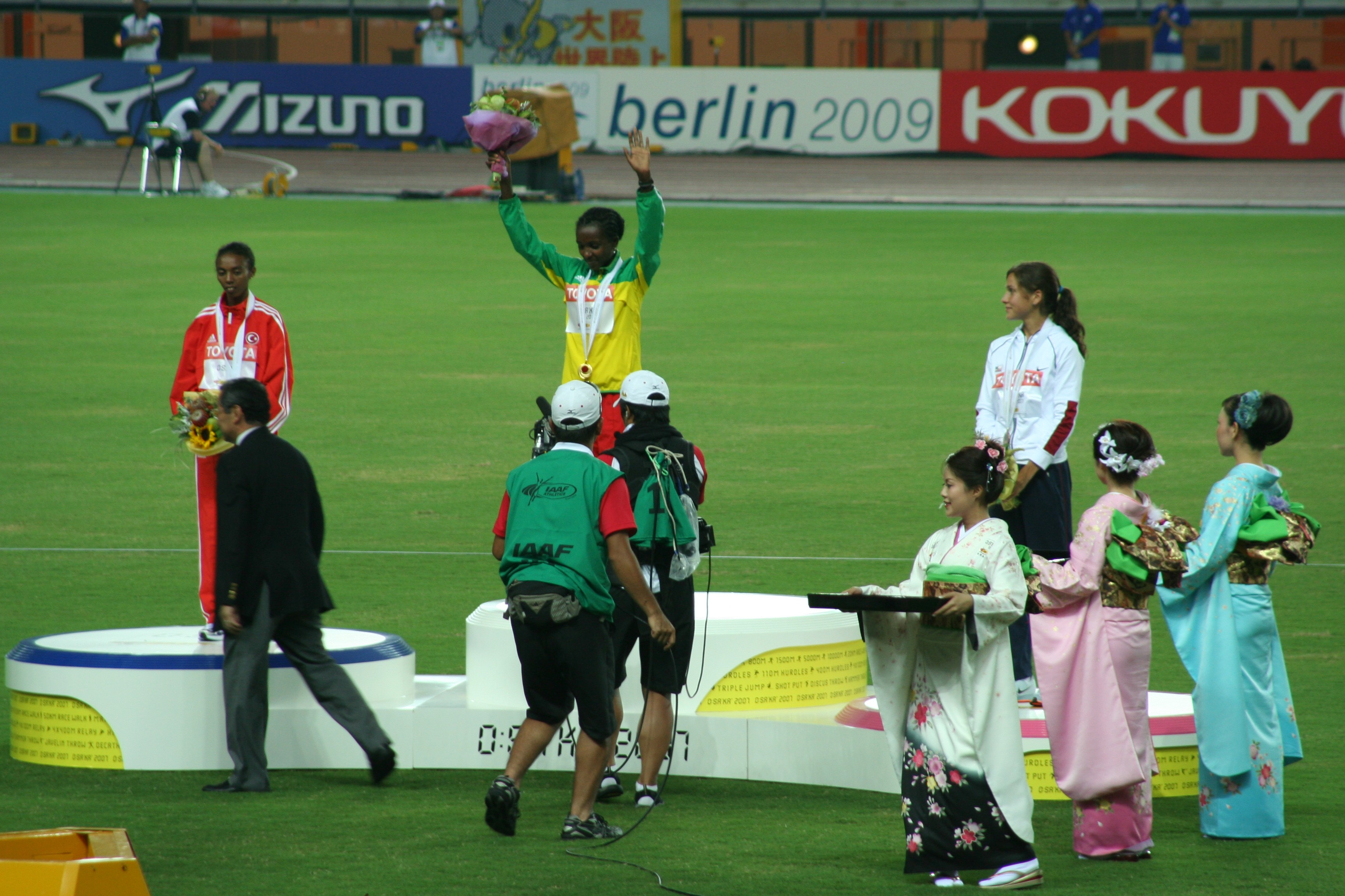 World Athletics Championships 2007 in Osaka - Victory Ceremony for the Women's 10000 Metres - Winner Tirunesh Dibaba (Middle), Second placed Elvan Abeylegesse (Left) and third Kara Goucher (right)